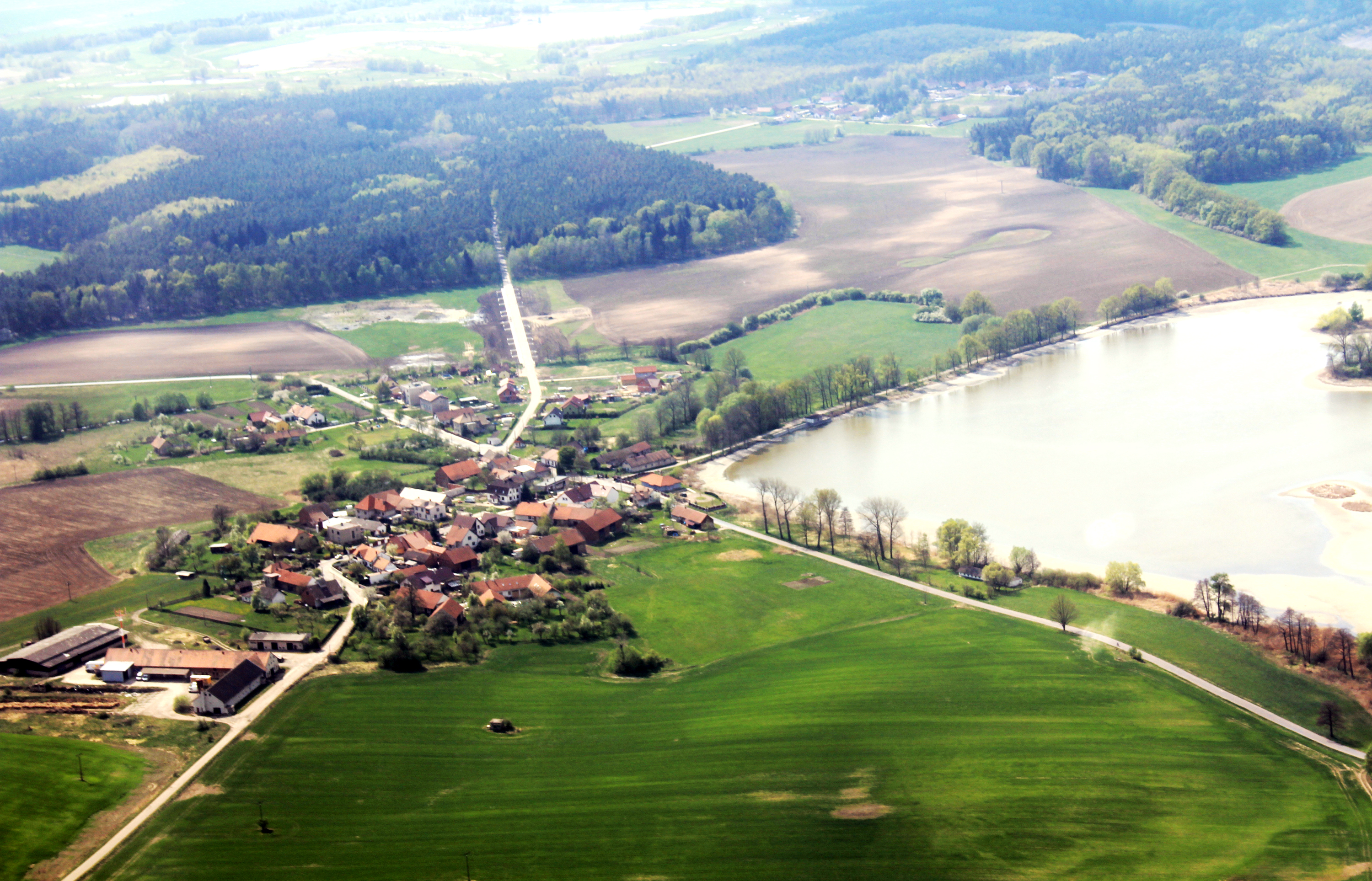 Village Újezd u Sezemic from air, eastern Bohemia, Czech Republic